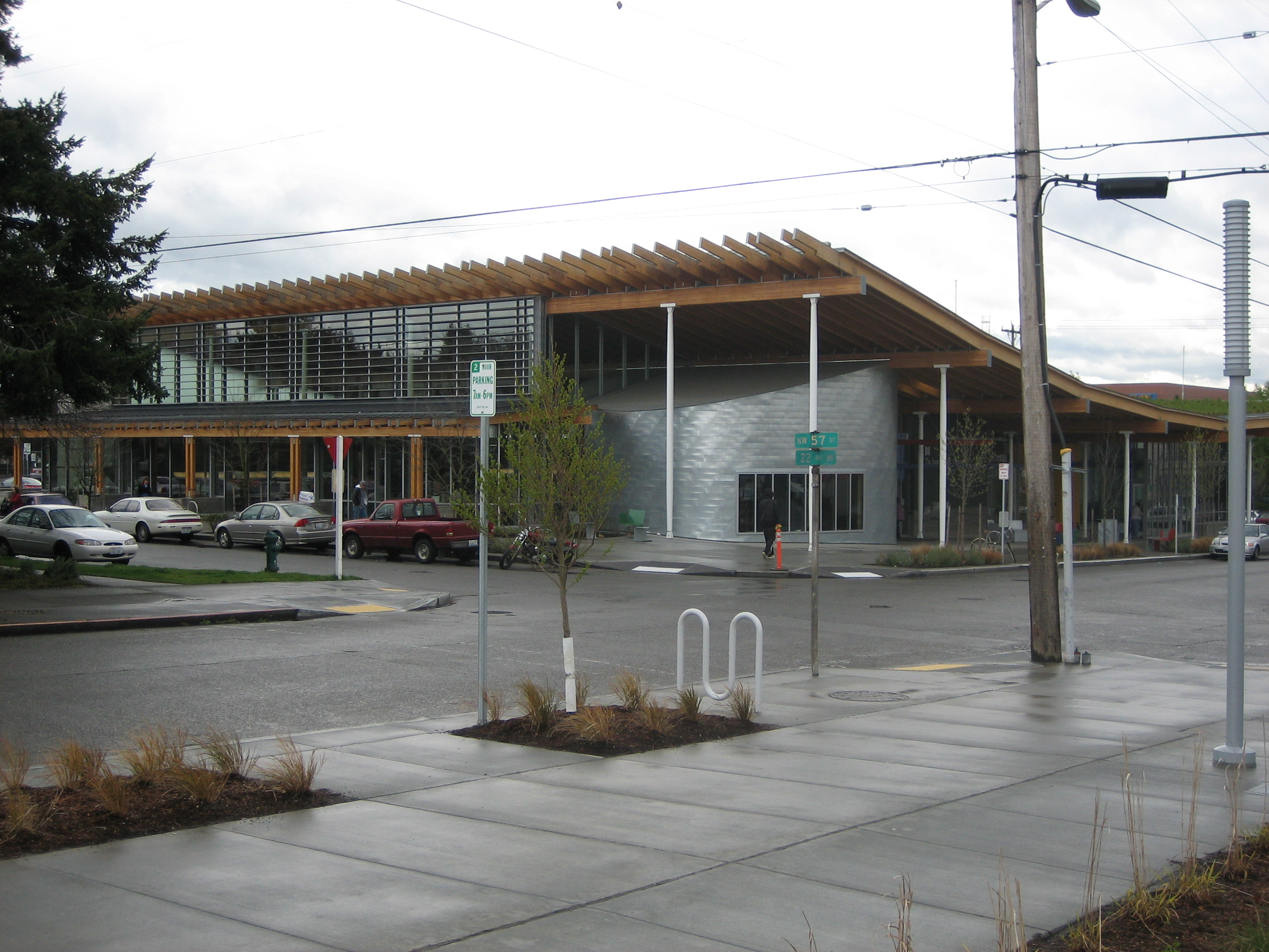 I took this picture on April 15, 2006 Summary I took this picture on April 15, 2006